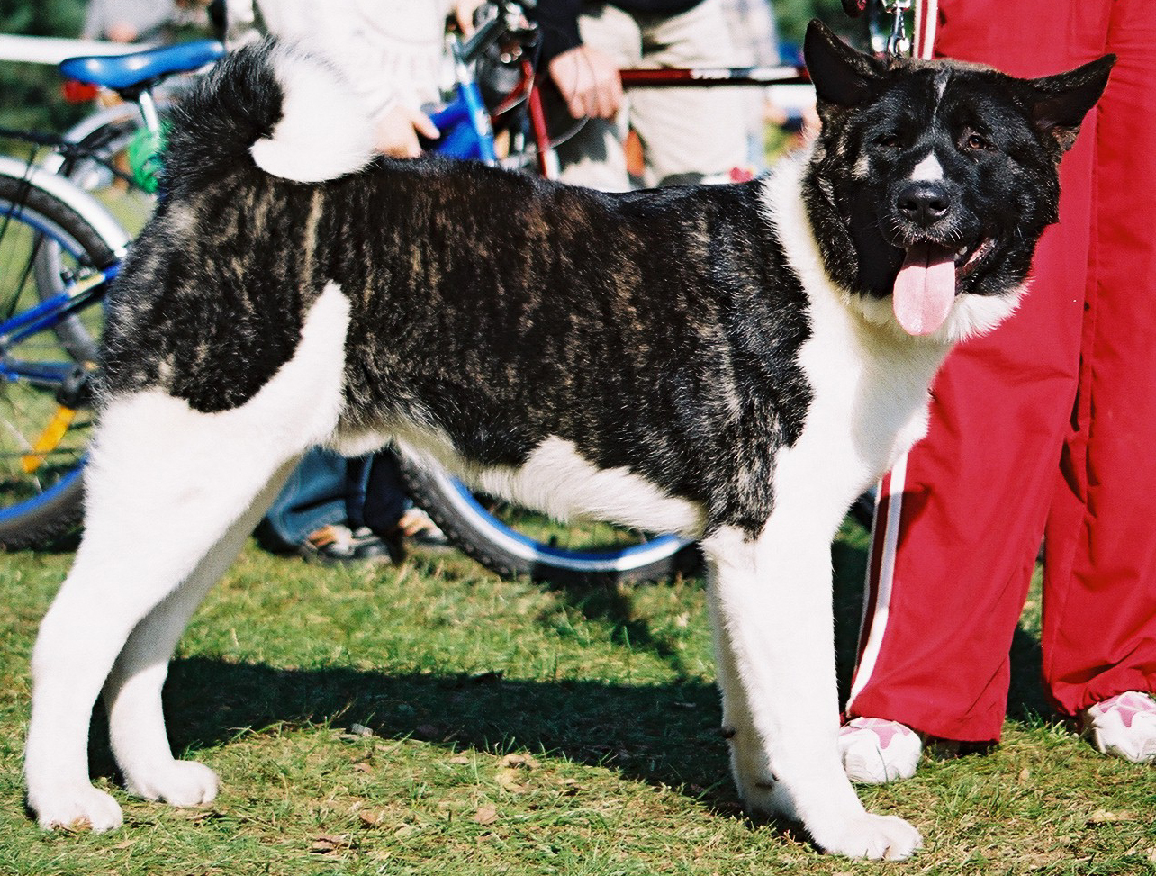 author: Pleple2000 19:03, 30 October 2005 (UTC)